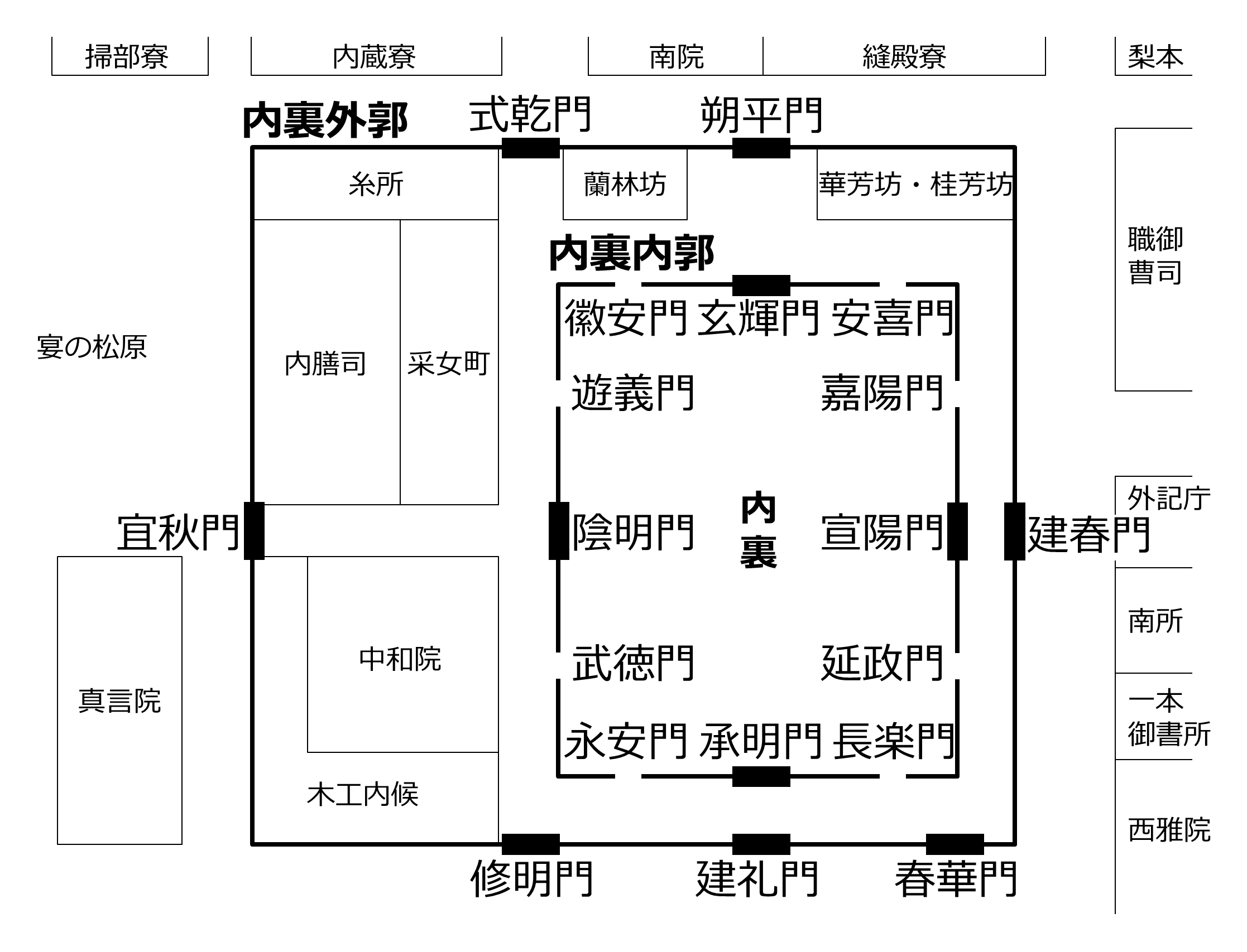 the map of dairi,Heian kyo